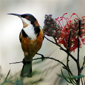 Bird, Eastern Spinebill, Acanthorhynchus tenuirostris.